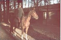 Hans Georg Schmidt von Altenstadt on a horse at Wolfsschanze, East Prussia